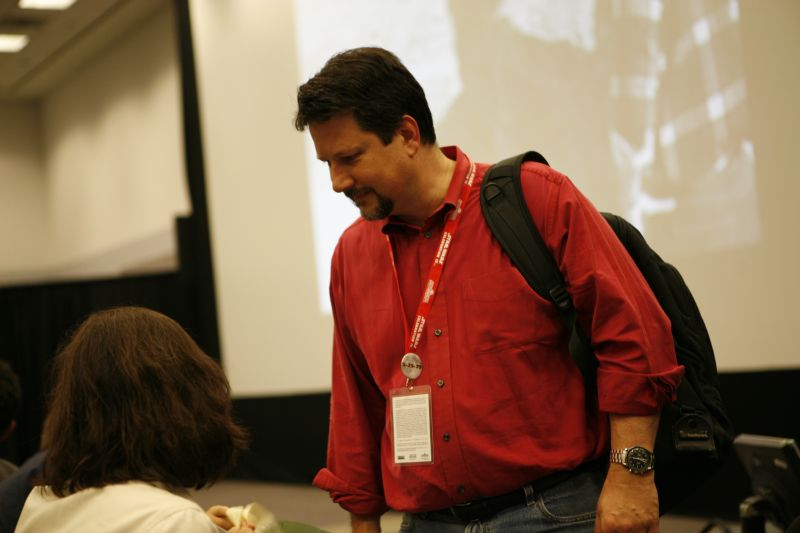 Academy Award-winning Visual Effects Supervisor John Knoll visits the 5-25-77 panel; Knoll serves as VFX Consultant for the film. Photo by Jenny Elwick. Read more at the Official Celebration IV blog.